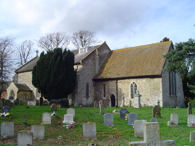 Photograph of the All Saints Church, located in the Civil Parish of Eyke Suffolk.